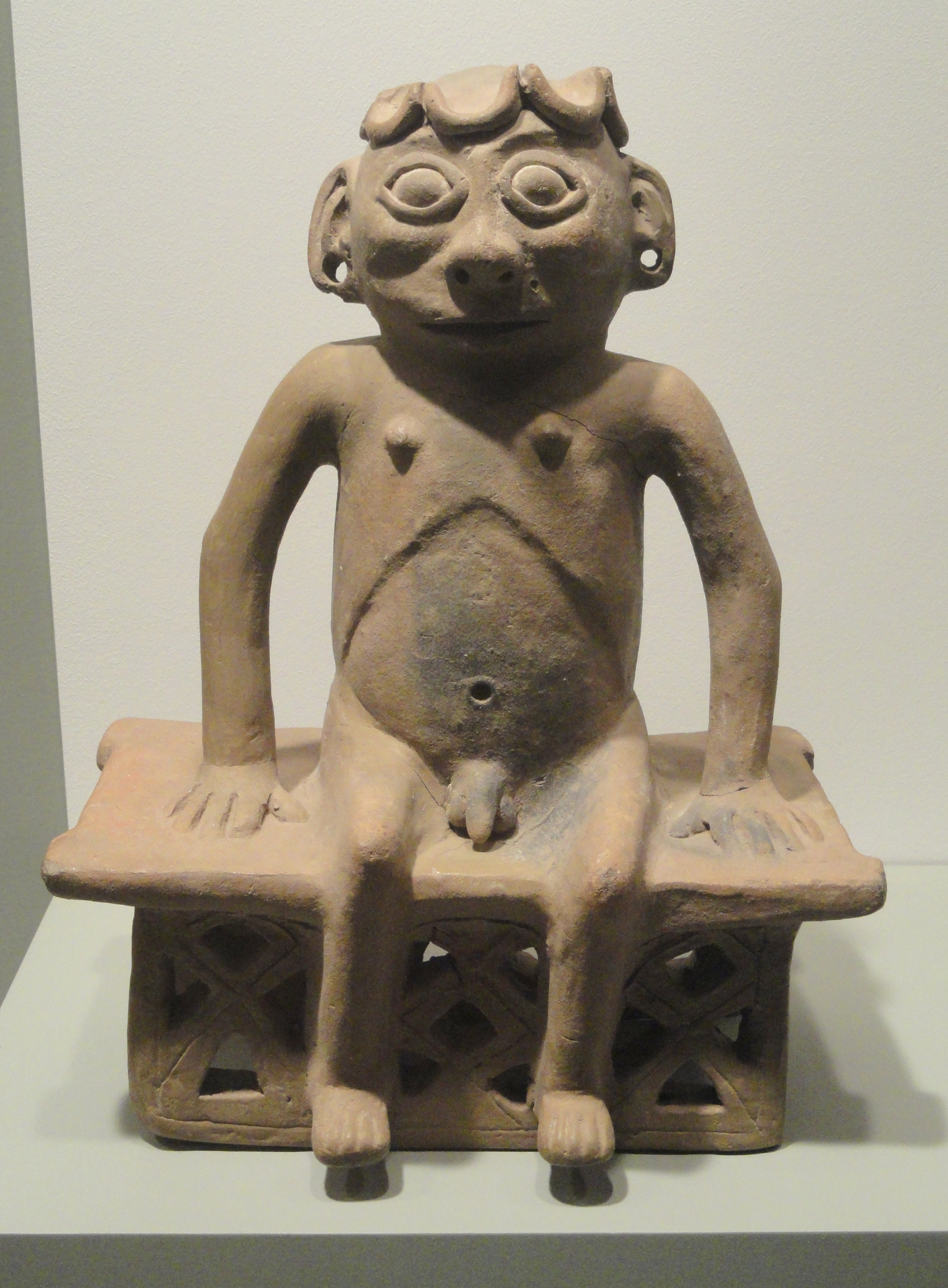 Exhibit in the Gardiner Museum, Toronto, Ontario, Canada. This artwork is in the public domain because the artist died more than 70 years ago.